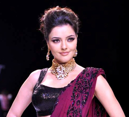 Kristina Akheeva walks the ramp for D. Navinchandra at IIJW 2013